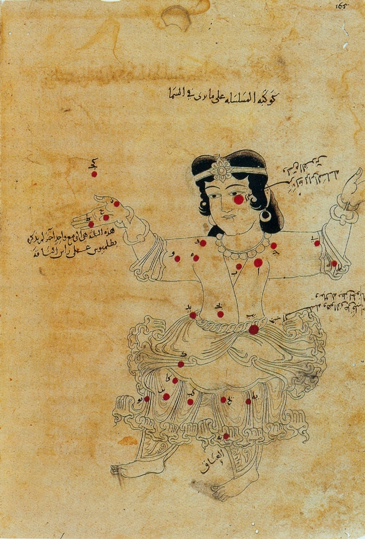 made in Iran